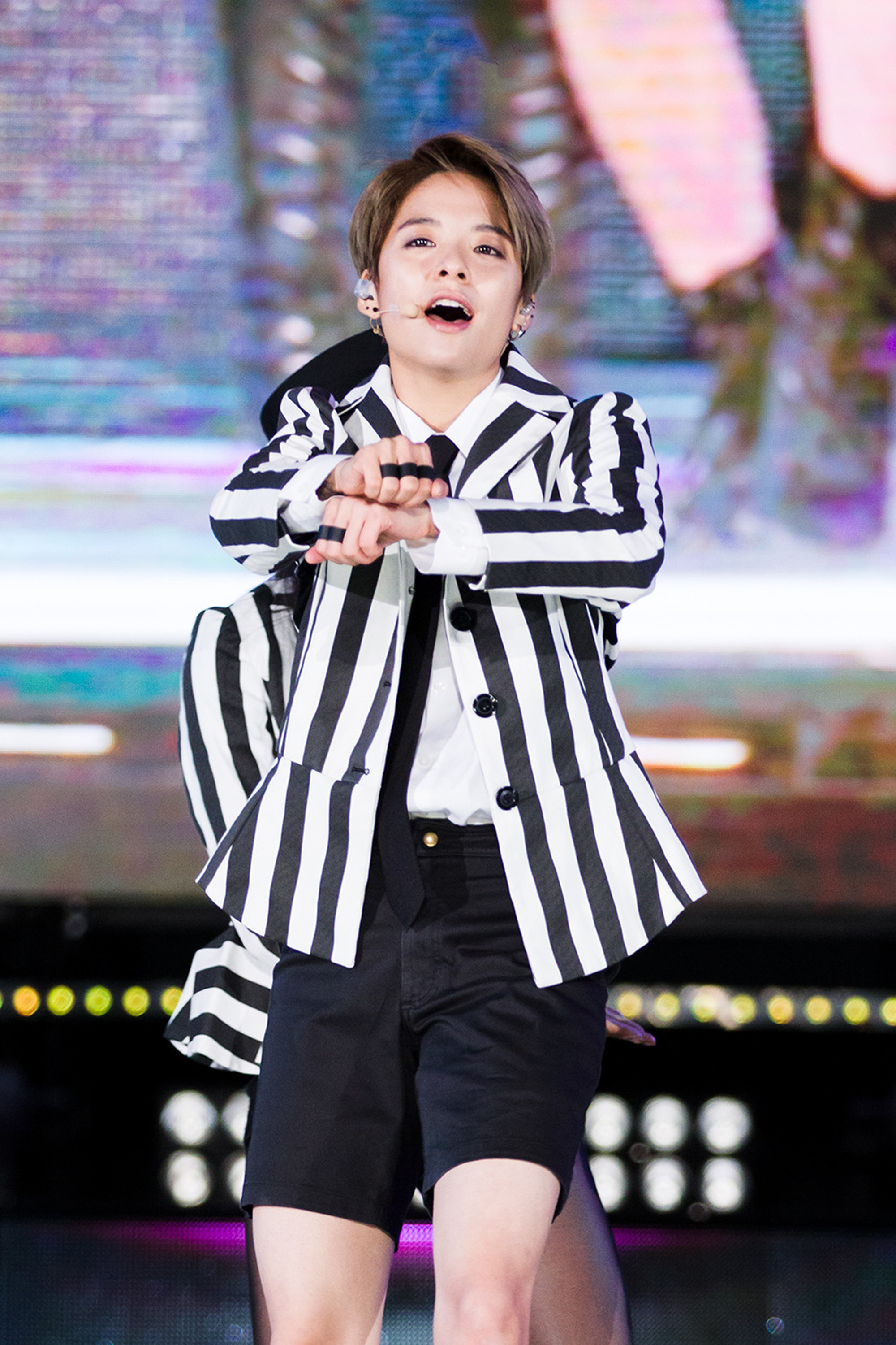 Amber Liu at Jeju K-Pop Festival on October 25, 2015.